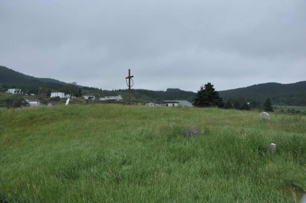 Old Cemetery Municipal Heritage Site, Port Kirwan, Newfoundland.